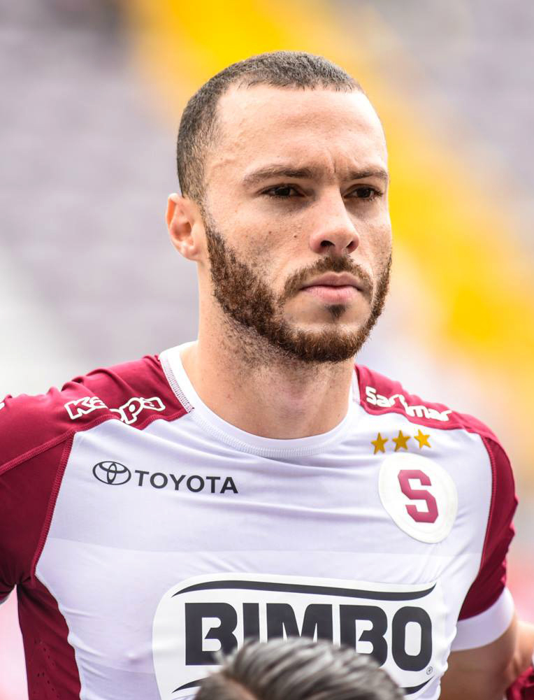 23-07-2017. Henrique Moura before a match with Deportivo Saprissa.